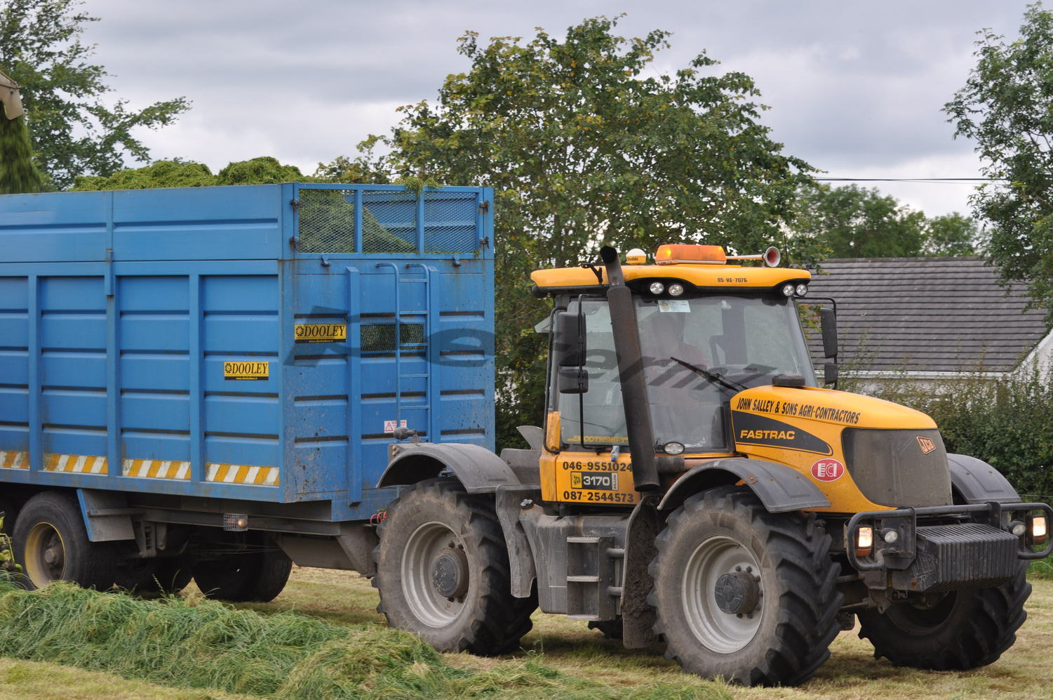 2nd cut of silage at Co. Meath Ireland - by John Salley Ltd. Juy 2011